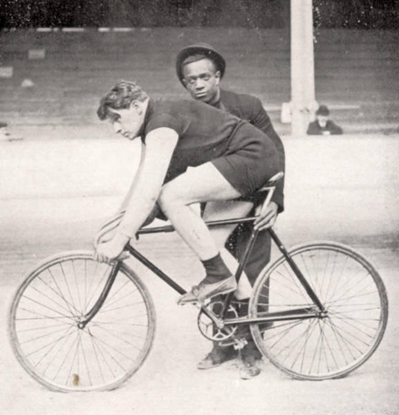 Sergei Utotschkin and Woody Hedspath pictured at a velodrome, c. 1908. Woody Hedspath was an internationally known American black champion racer, who lived in Belgium most of his life. In 1904, he set a world record for longest distance cycled in one hour.